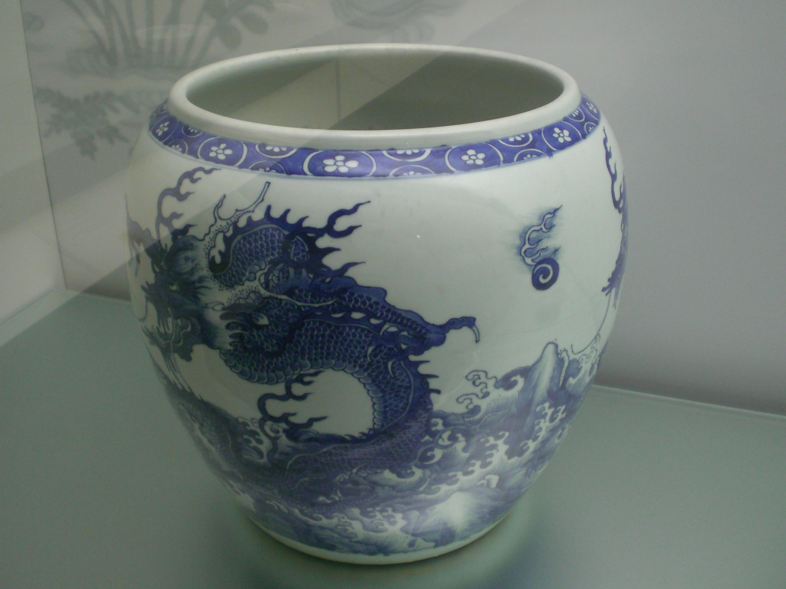 尖沙咀 香港藝術館 中國藝術陶瓷 陶器 清朝藝術